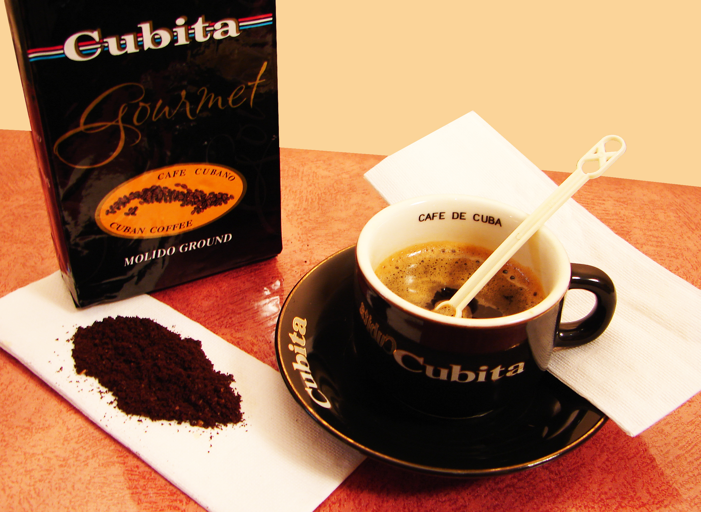 Cuban coffee; "Cubita Gourmet".